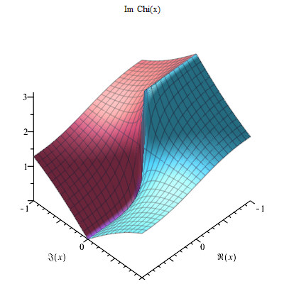 Chi(x) Im complex 3D plot